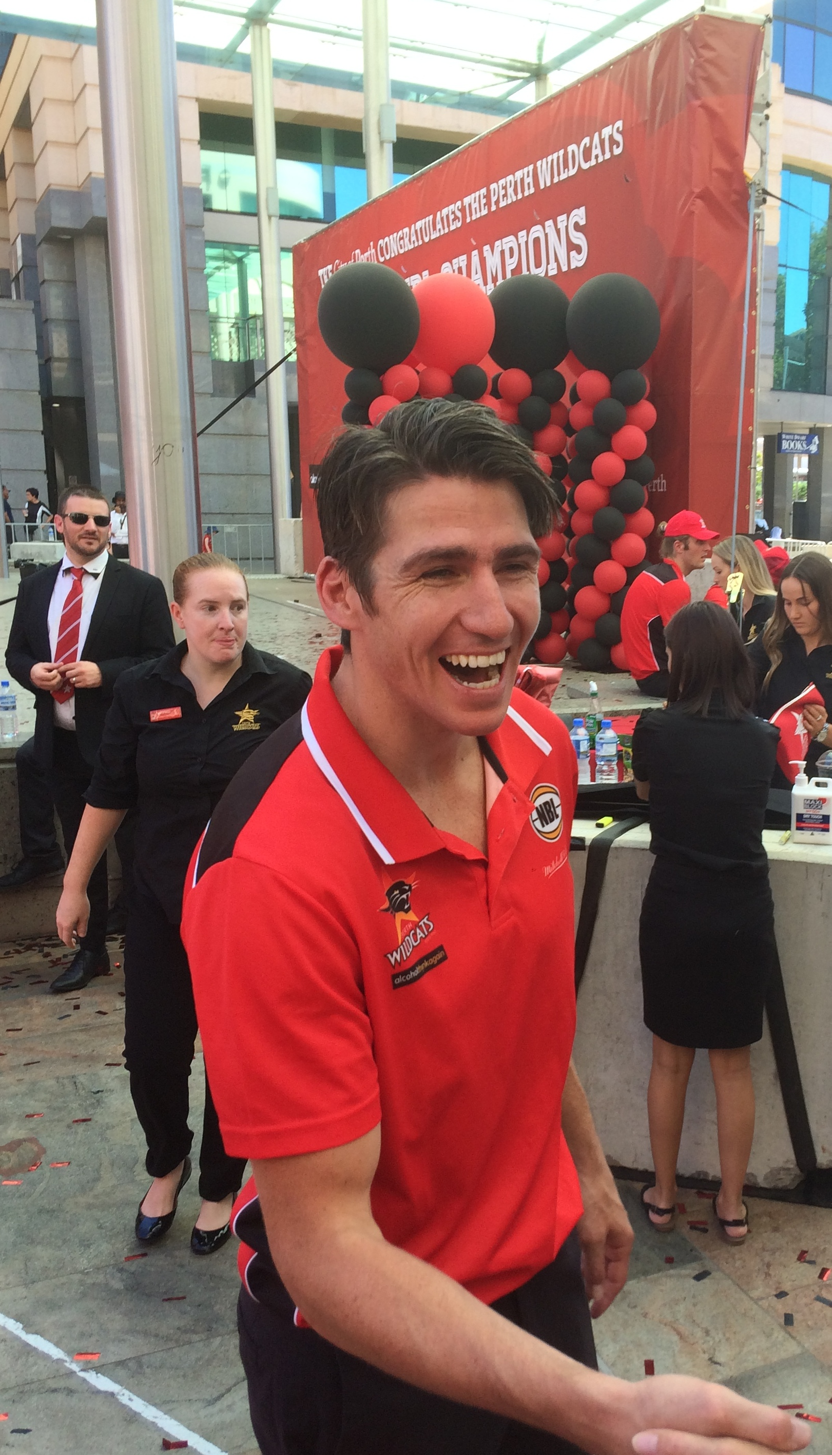 Damian Martin at the Perth Wildcats' 2017 championship celebration